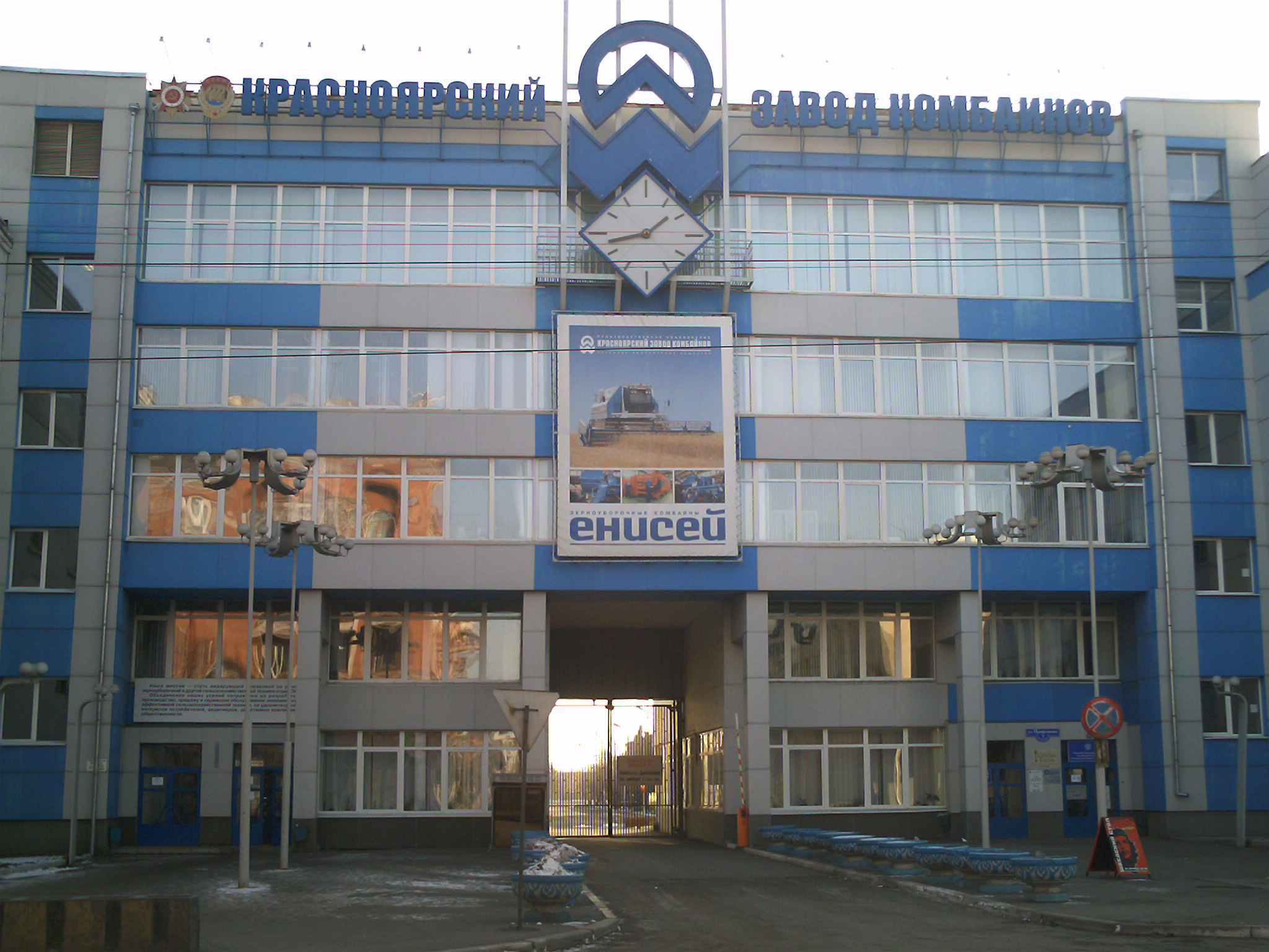 The main entrance of the Krasnoyarsk Combine Plant. Restored in 2002. Below the clock is the advertisement of the Yenisei combines produced by the plant. At the right the red advertisement board of the famous Che Guevara bar can be seen.